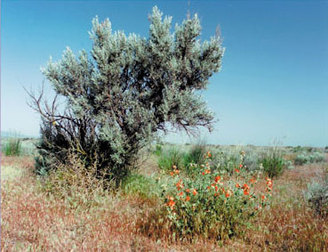 Artemisia tridentata at the Hanford Site, Washington